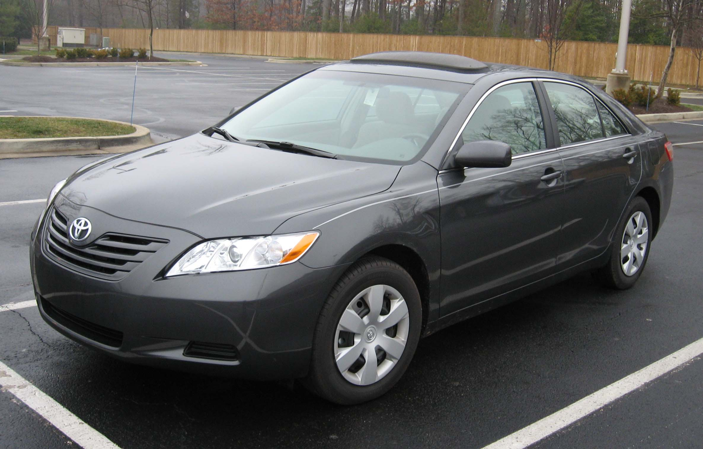 2007 Toyota Camry LE photographed in USA.